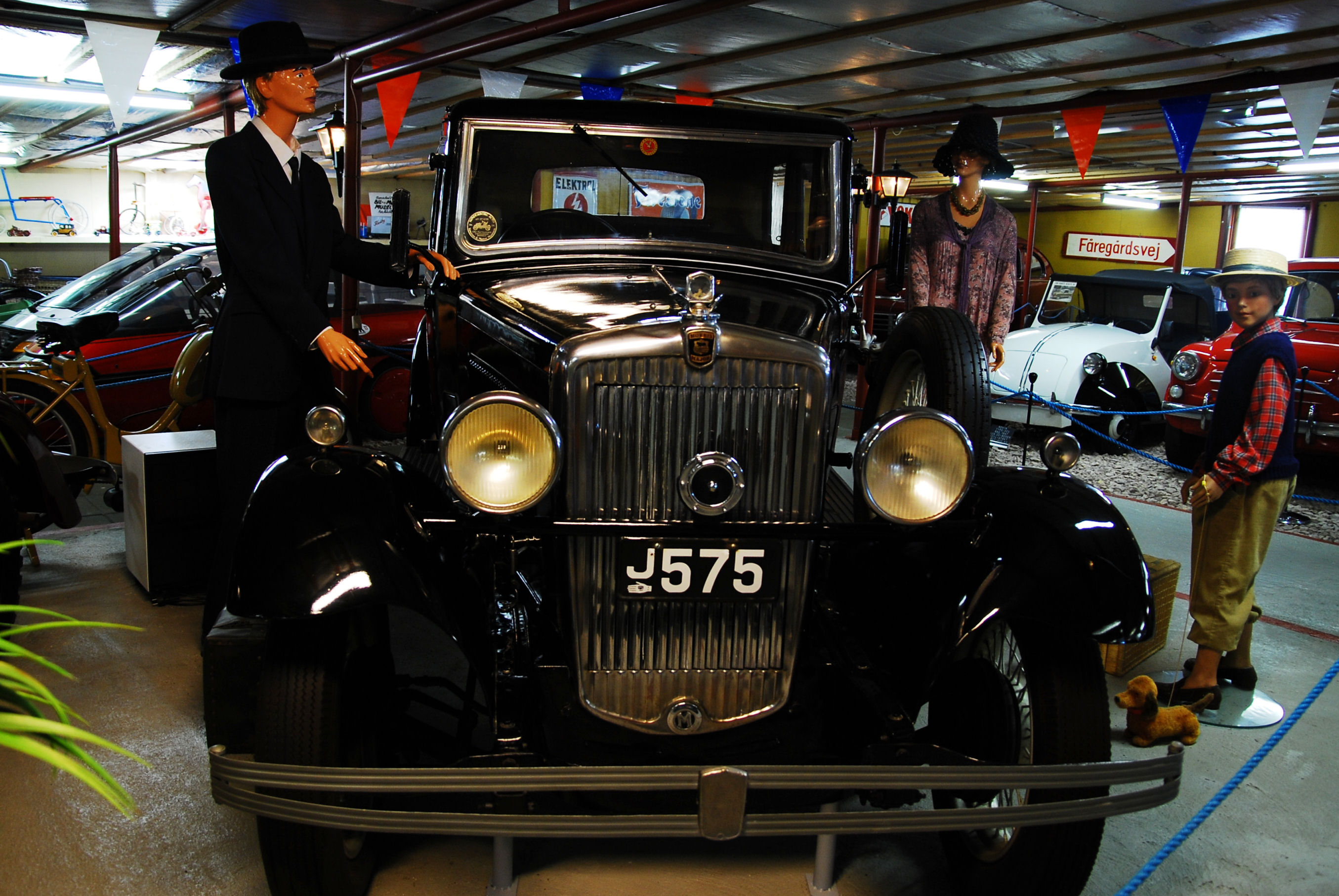 Morris Major Six at Automobilmuseum in Bornholm in Aakirkeby